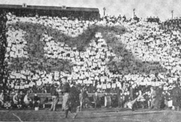 "The Block M Formed by Yellow and Blue Pennants," at the 1910 Michigan - Minnesota game at Ferry Field (courtesy of Detroit Saturday Night)